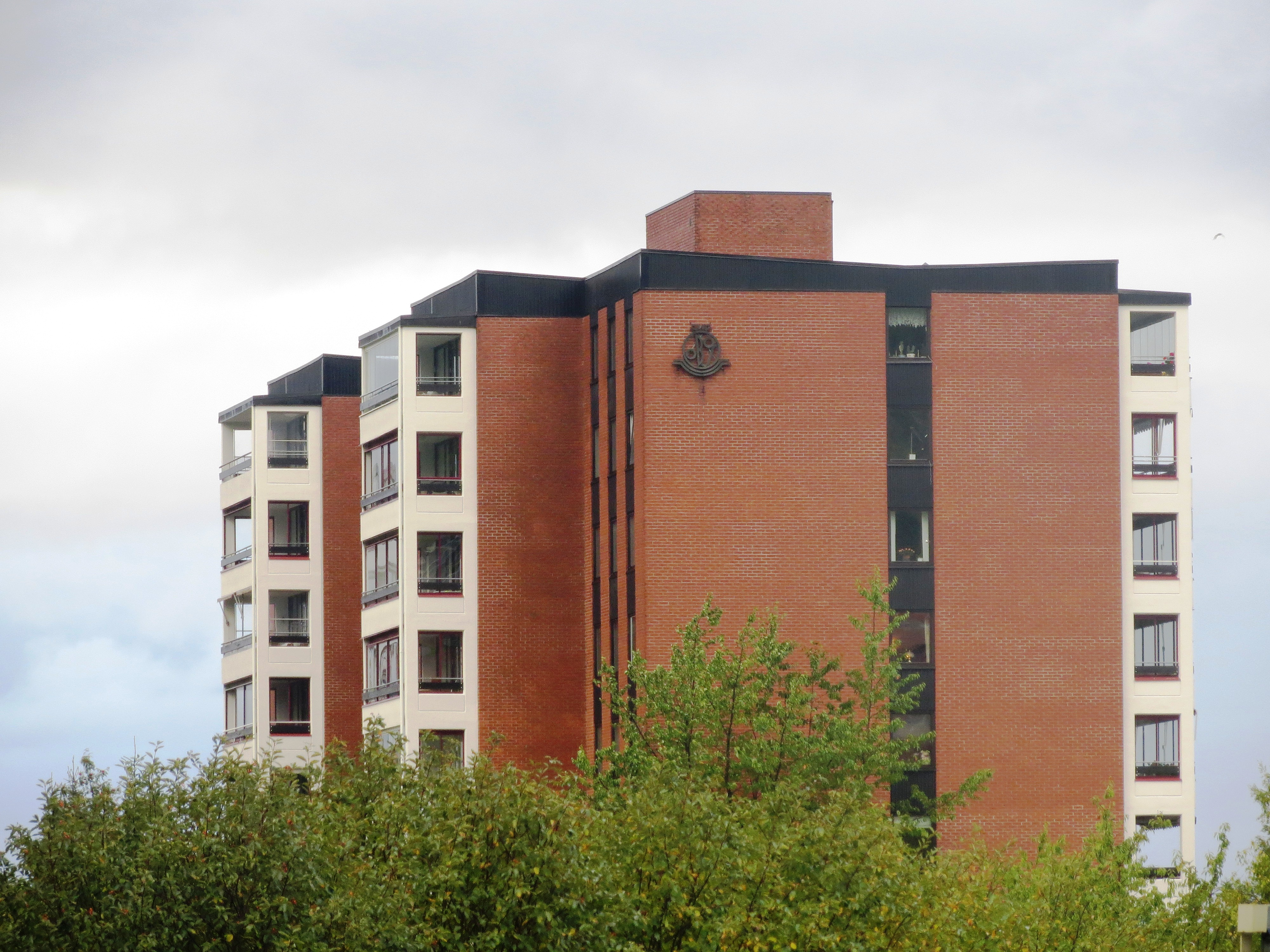 OBOS dwelling house at Hovseter in Vestre Aker bydel - Oslo, Norway